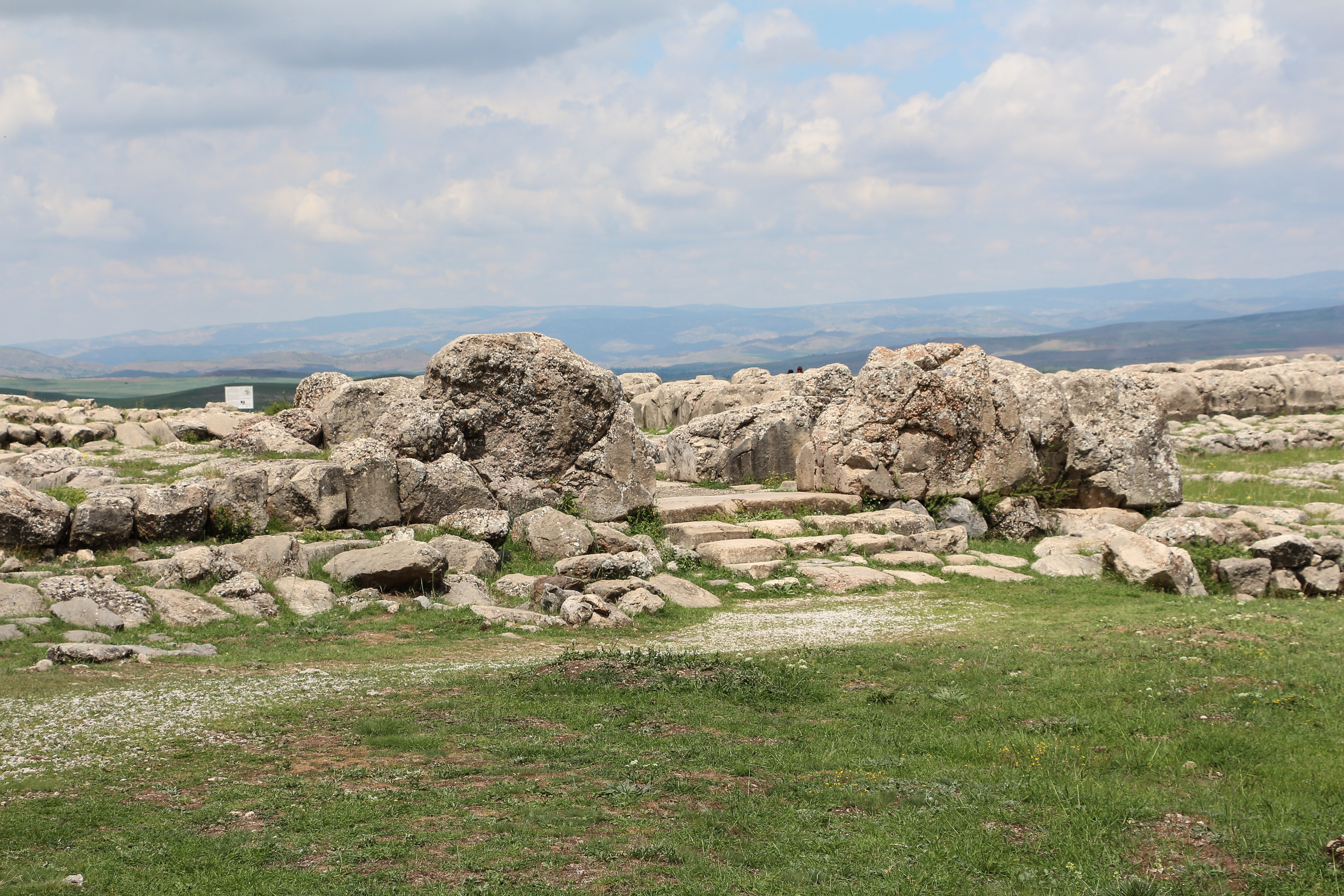 Lower City of Hattusa, Turkey